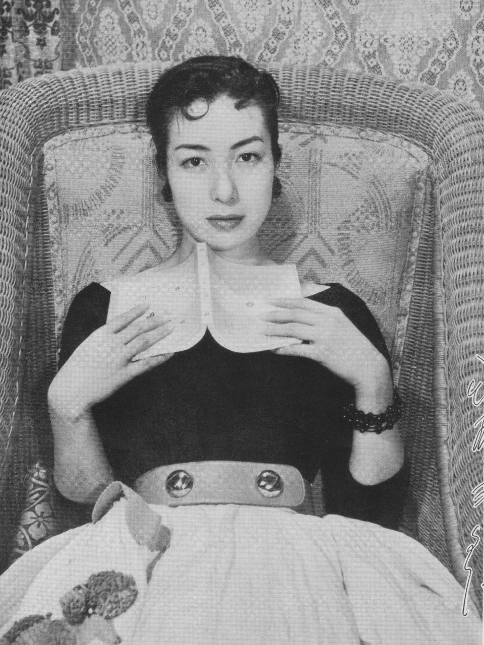 Michiyo Aratama. taken in 1955.